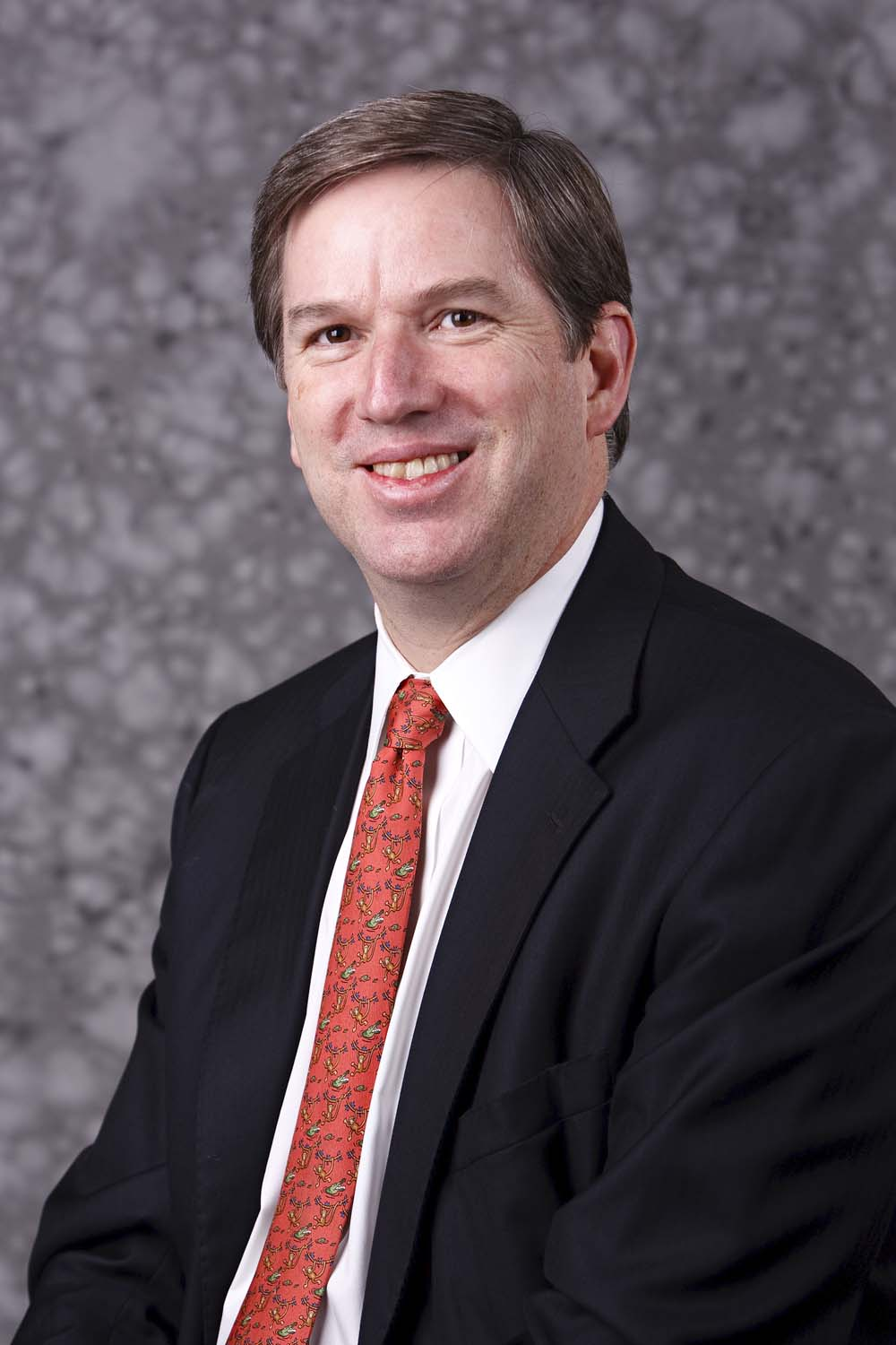 Cristián Samper, Director of the National Museum of Natural History